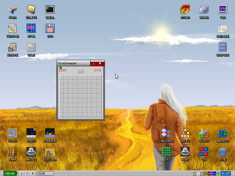 Screenshot of KolibriOS, a free operating system